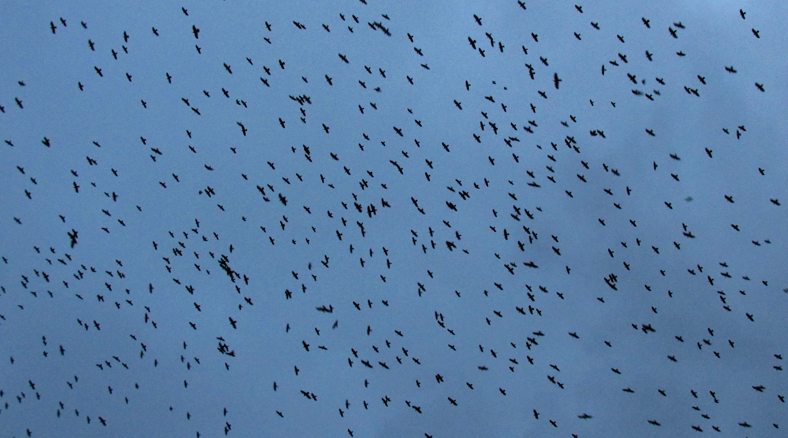 A flock of rooks (Corvus frugilegus) at dusk.